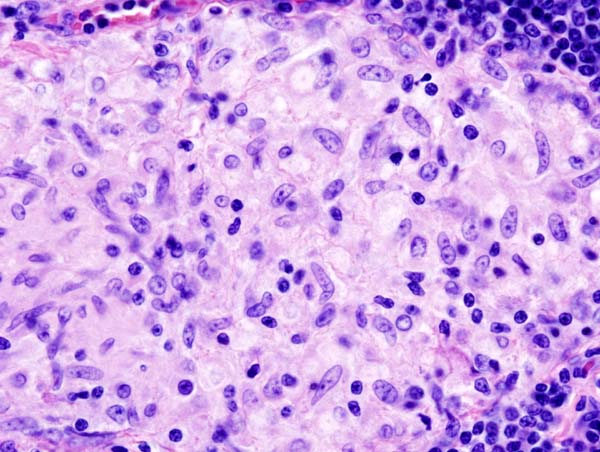 Histopathological image of sarcoidosis. Lymph node biopsy. Note epithelioid granuloma with asteroid bodies, which appear obscure. H & E stain.